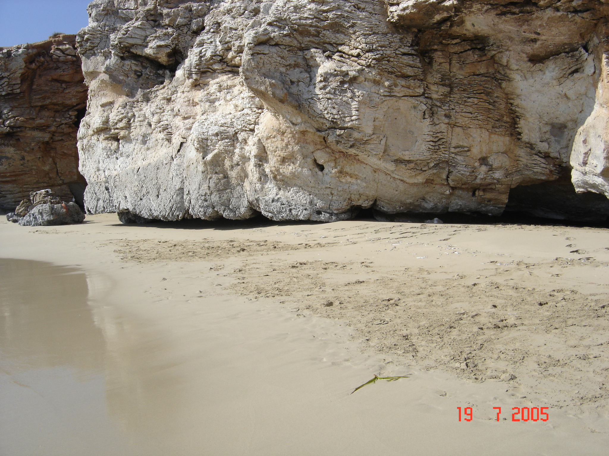 Marathi,Kasos, greek Island This is a photography of Natura 2000 protected area with ID GR4210001